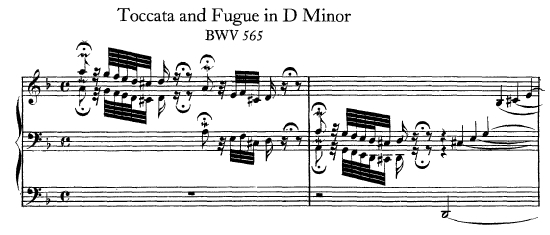 Opening of Bach Organ Toccata BWV 565